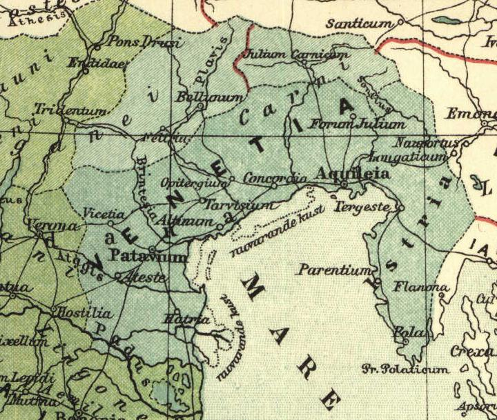 Map of Regio X Venetia et Istria until the time of Augustus Caesar